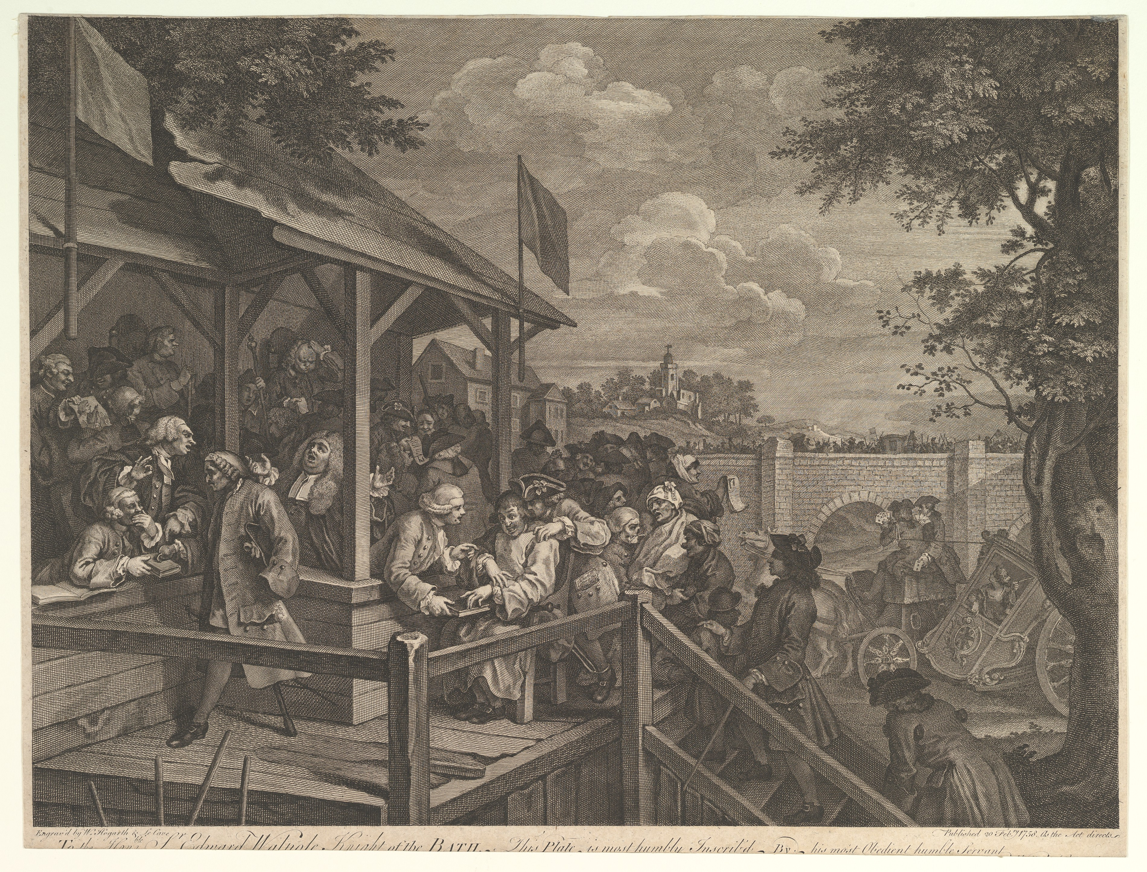 Print; Prints